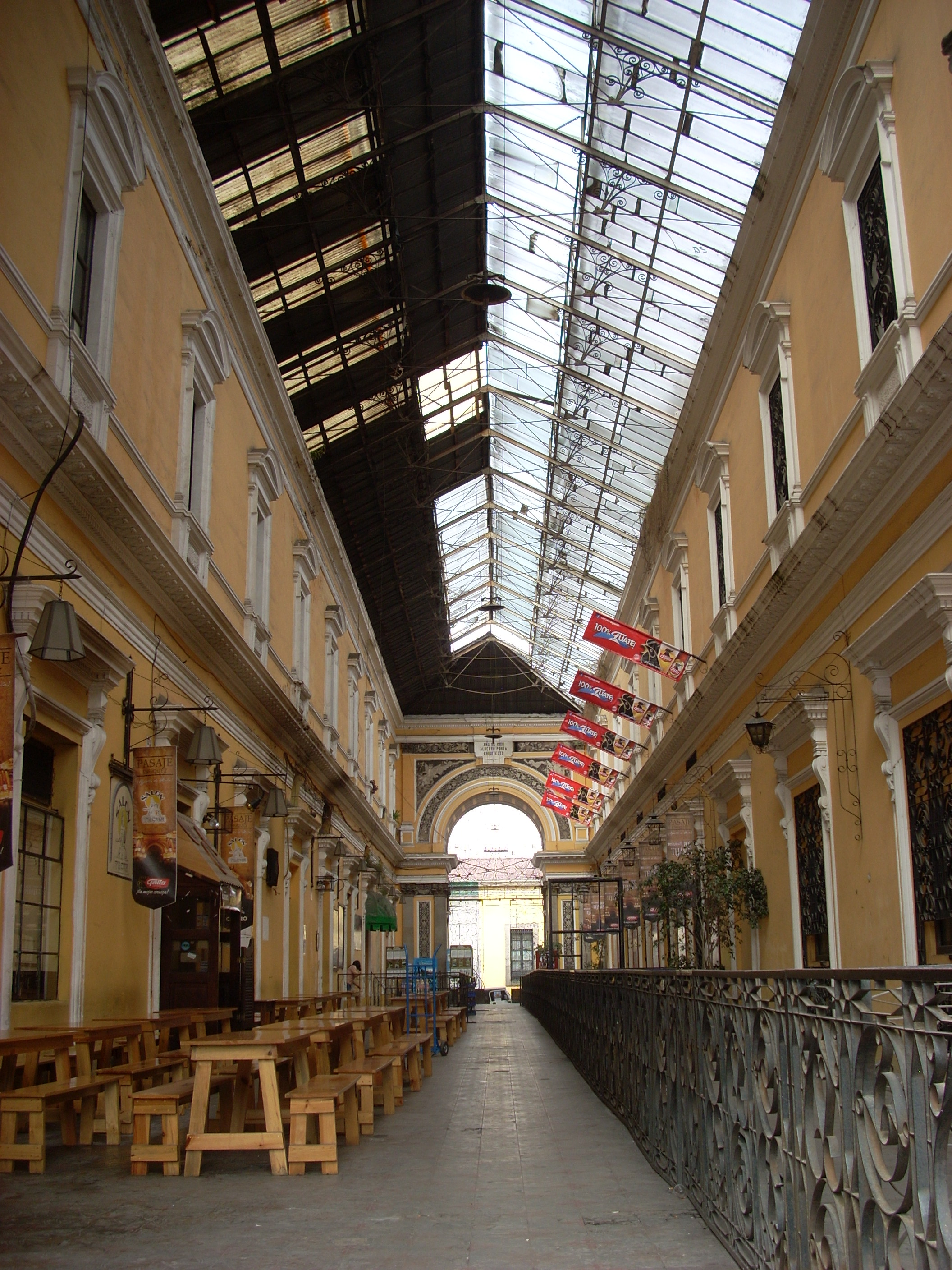 Interior of Pasaje Enriquez in 2011. Zona 1, Quetzaltenango, Guatemala.